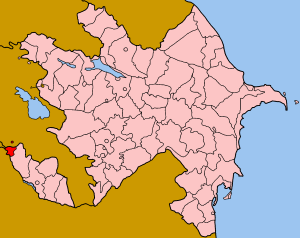 Map of Azerbaijan showing Sadarak rayon in red.